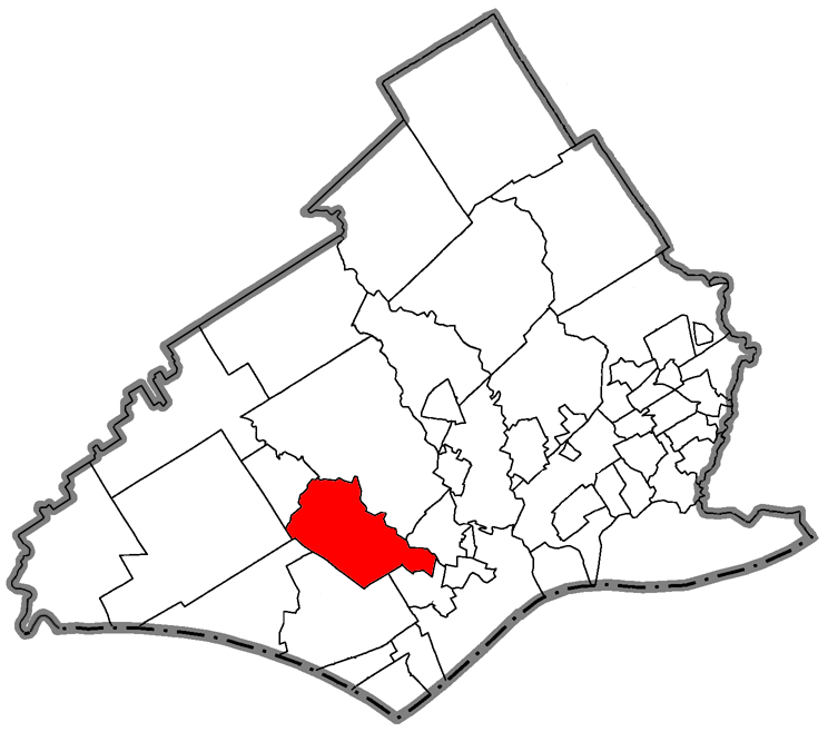 Showing the location within Delaware County, Pennsylvania.